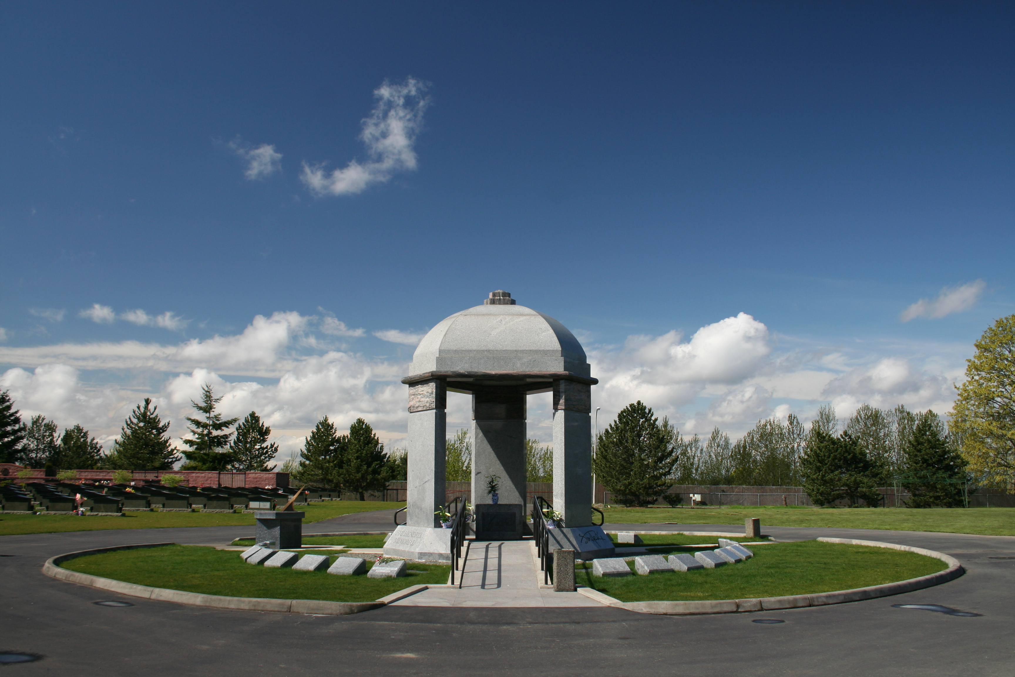 Greenwood Memorial Park Cemetary, Renton, WA